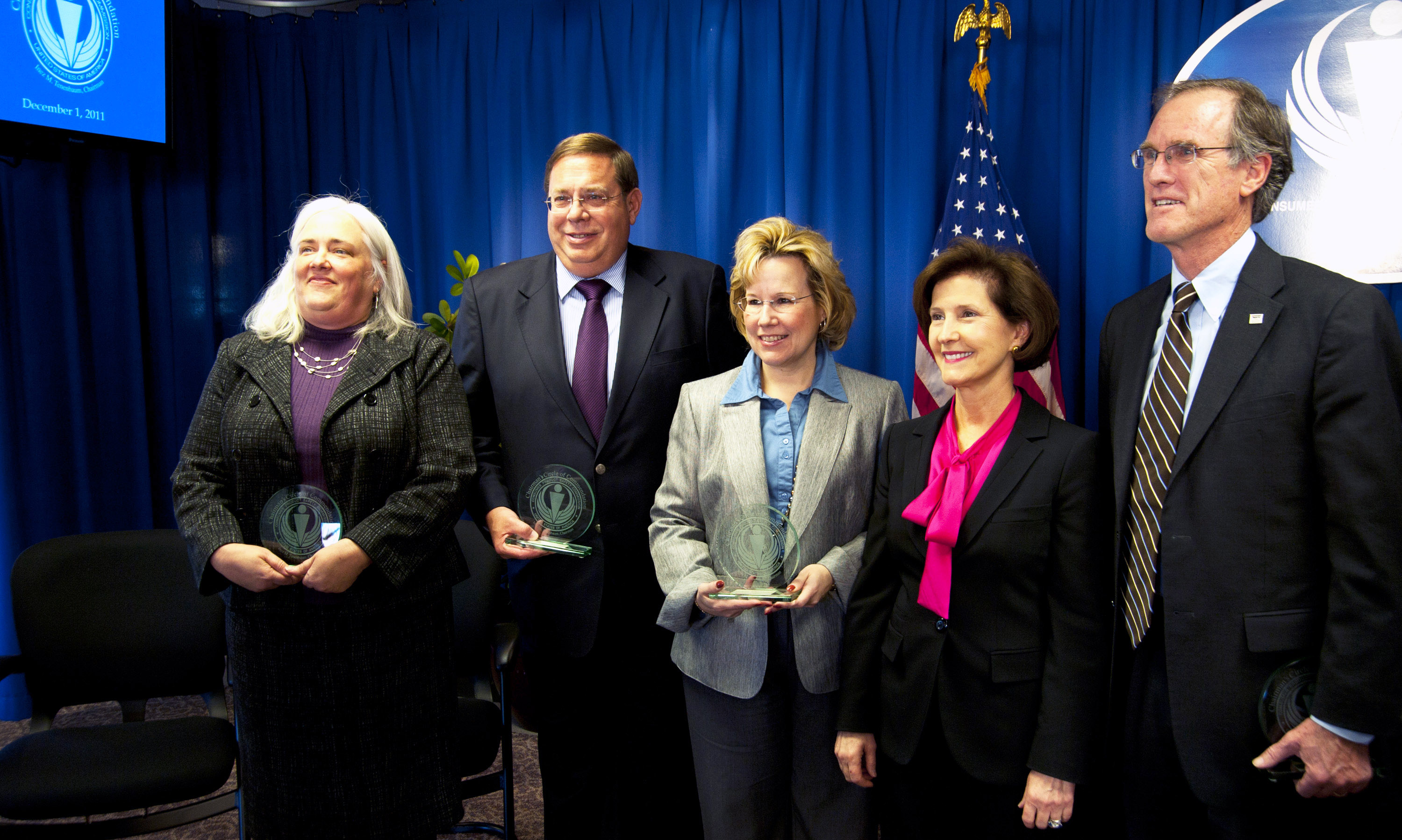 CPSC Chairman Inez Tenenbaum honored five people and groups for their exceptional contributions to consumer product safety. Pictured from left: Nancy Cowles, Kids in Danger; Gene Rider, Intertek; Kathie Morgan, ASTM ASTM Subcommittee F15.18 on cribs, toddler beds, play yards, cradles and changing tables; Chairman Tenenbaum, and Jim Guest, Consumer Reports. Not pictured: Dr. Gary Smith, Director, Center for Injury Research and Policy at Nationwide Children's Hospital, Columbus, Ohio